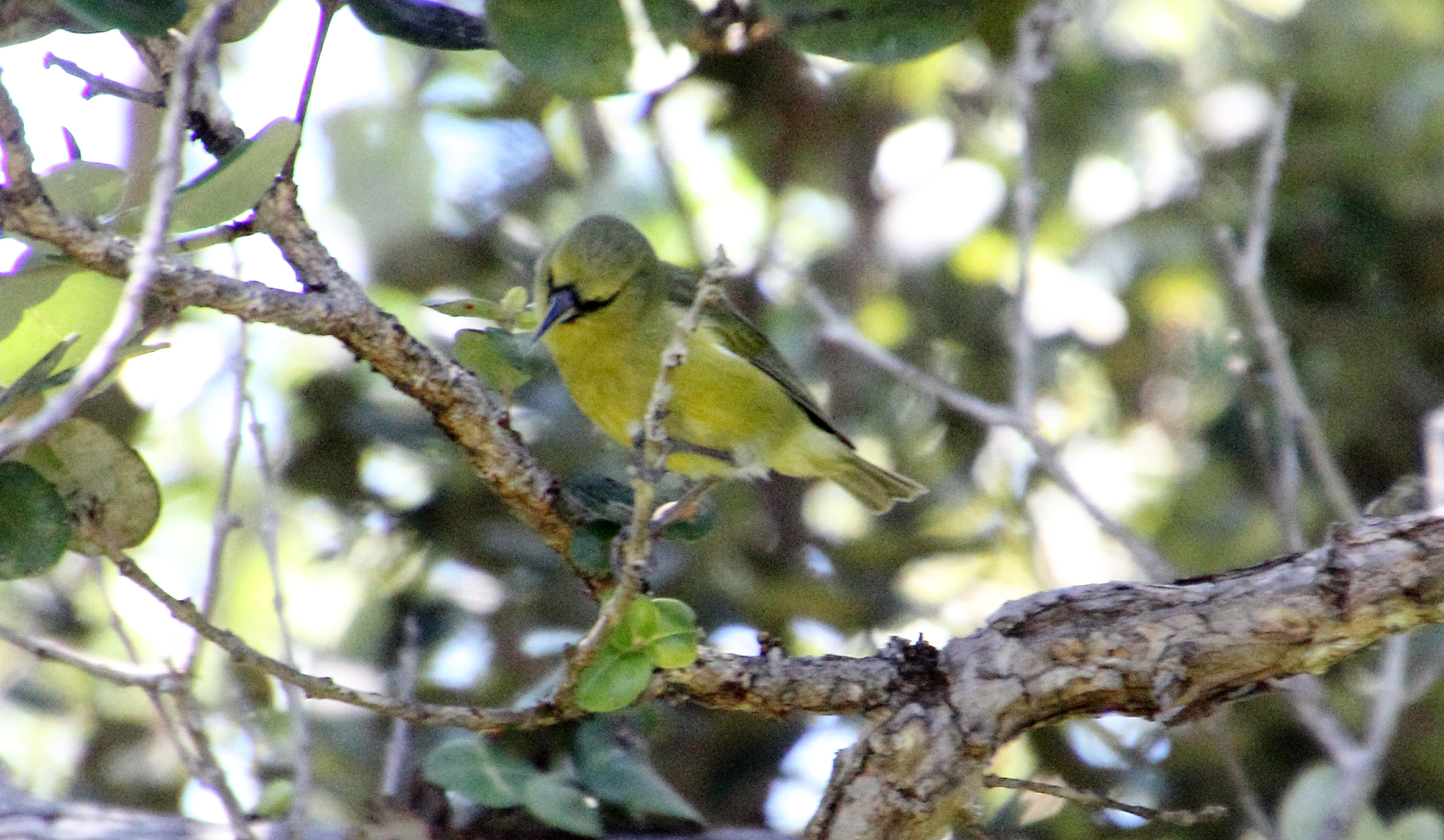 Hawaii Amakihi (Chlorodrepanis virens virens)